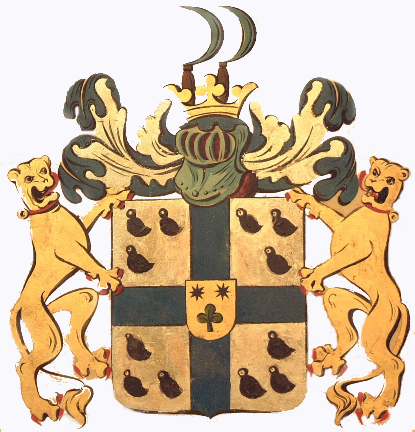 photo